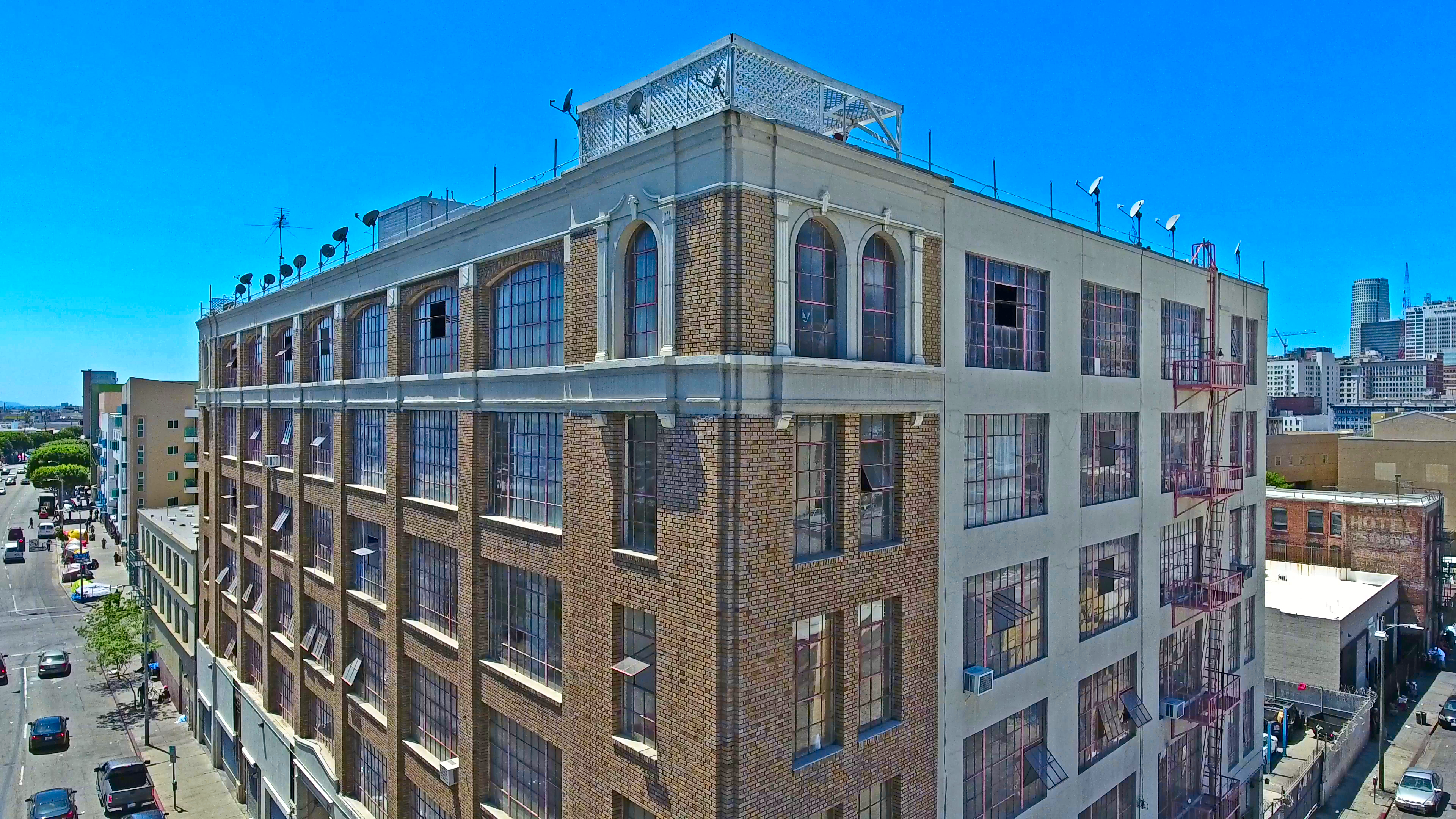 Northeast corner of 443 S San Pedro St